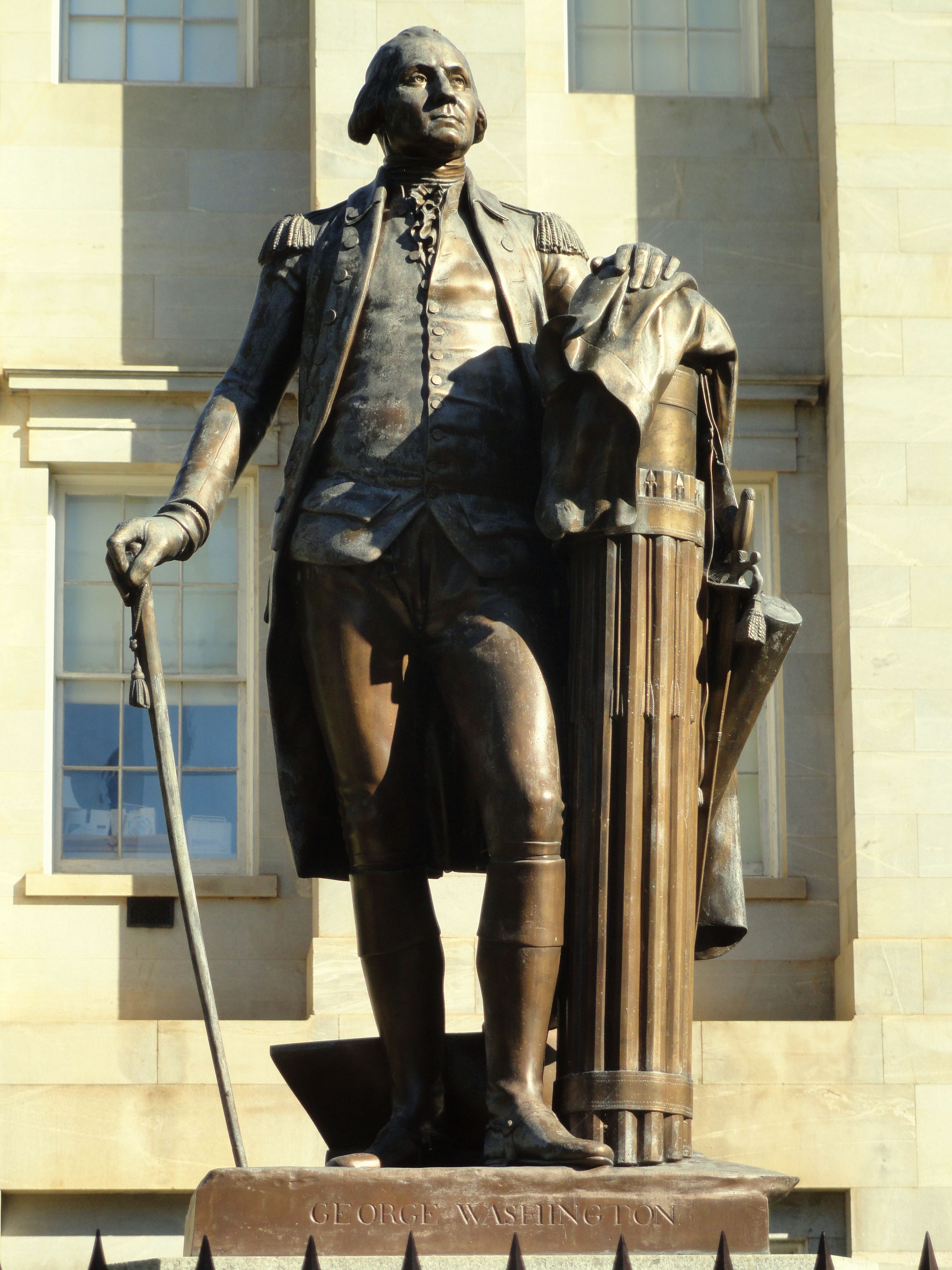 Memorial to George Washington by Jean-Antoine Houdon. North Carolina State Capitol, Raleigh, North Carolina, USA. Cast by William J. Hubbard of Richmond, Virginia, and unveiled on July 4, 1857.